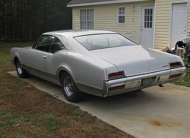 1967 Oldsmobile Delta 88 coupé (rear view)